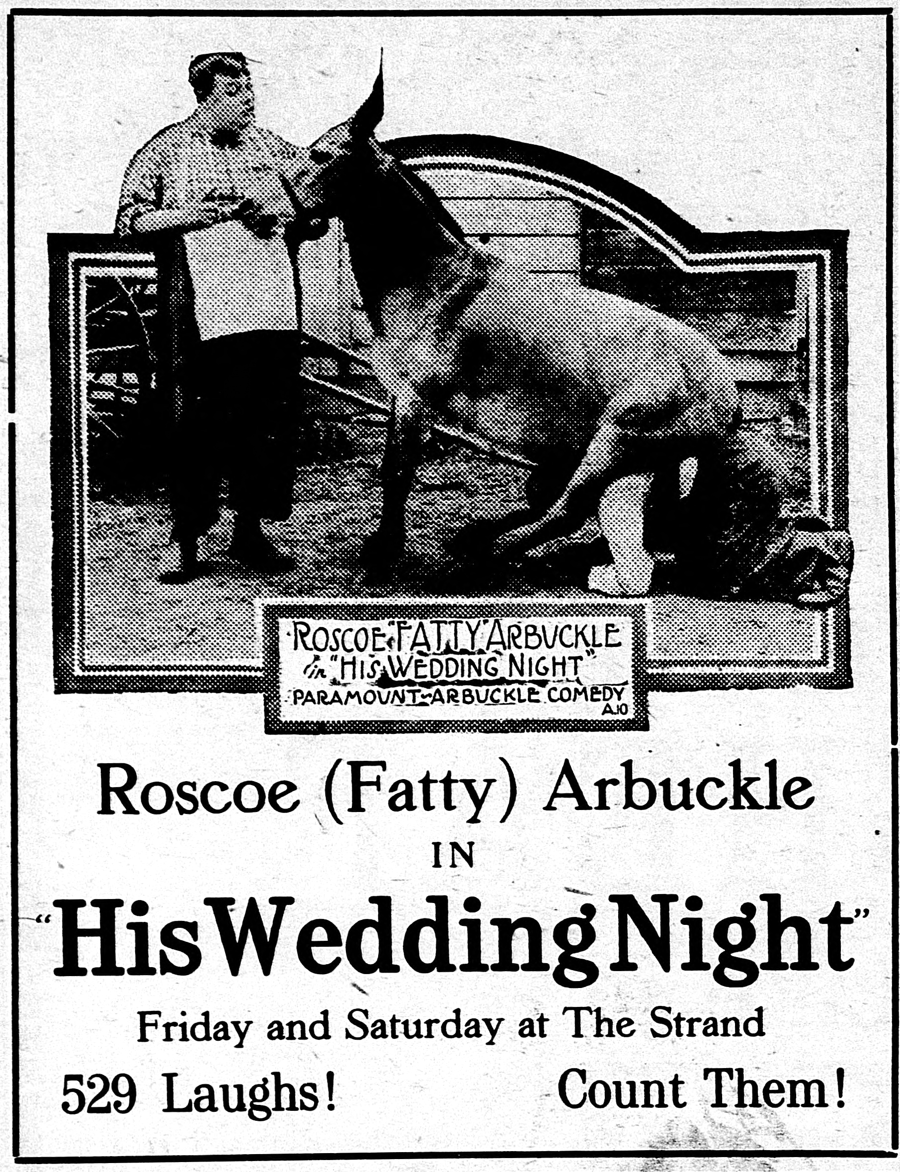 His Wedding Night is a 1917 American short comedy film starring Fatty Arbuckle, Al St. John, and Buster Keaton, and was directed by Arbuckle. This is an advertisement from a newspaper.